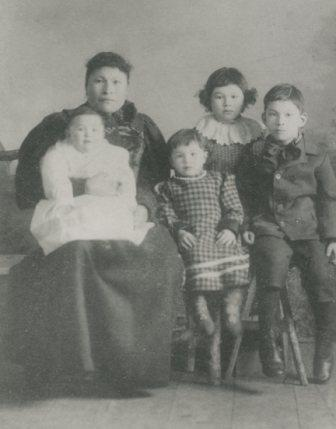 Katherine McQuesten (died 1921) with part of her large family. Photo from the Yukon Archives